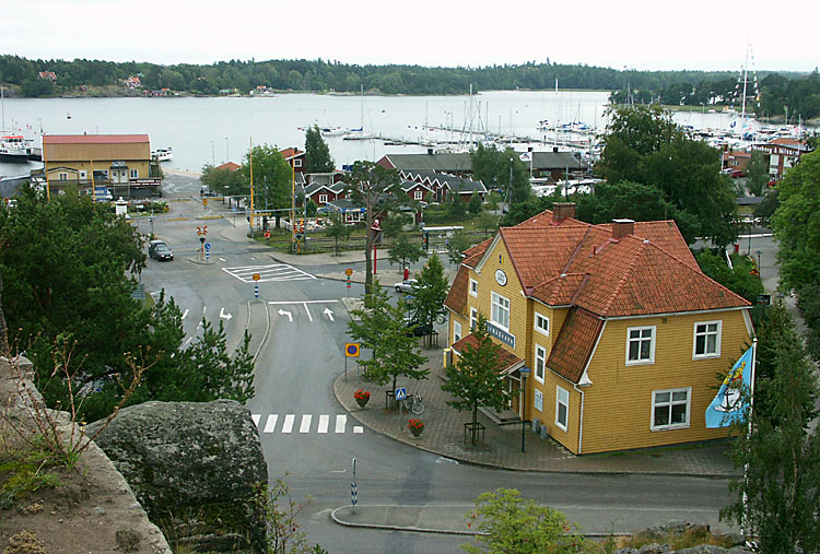 The railway station and harbour in Nynäshamn in the town of Nynäshamn in Sweden.